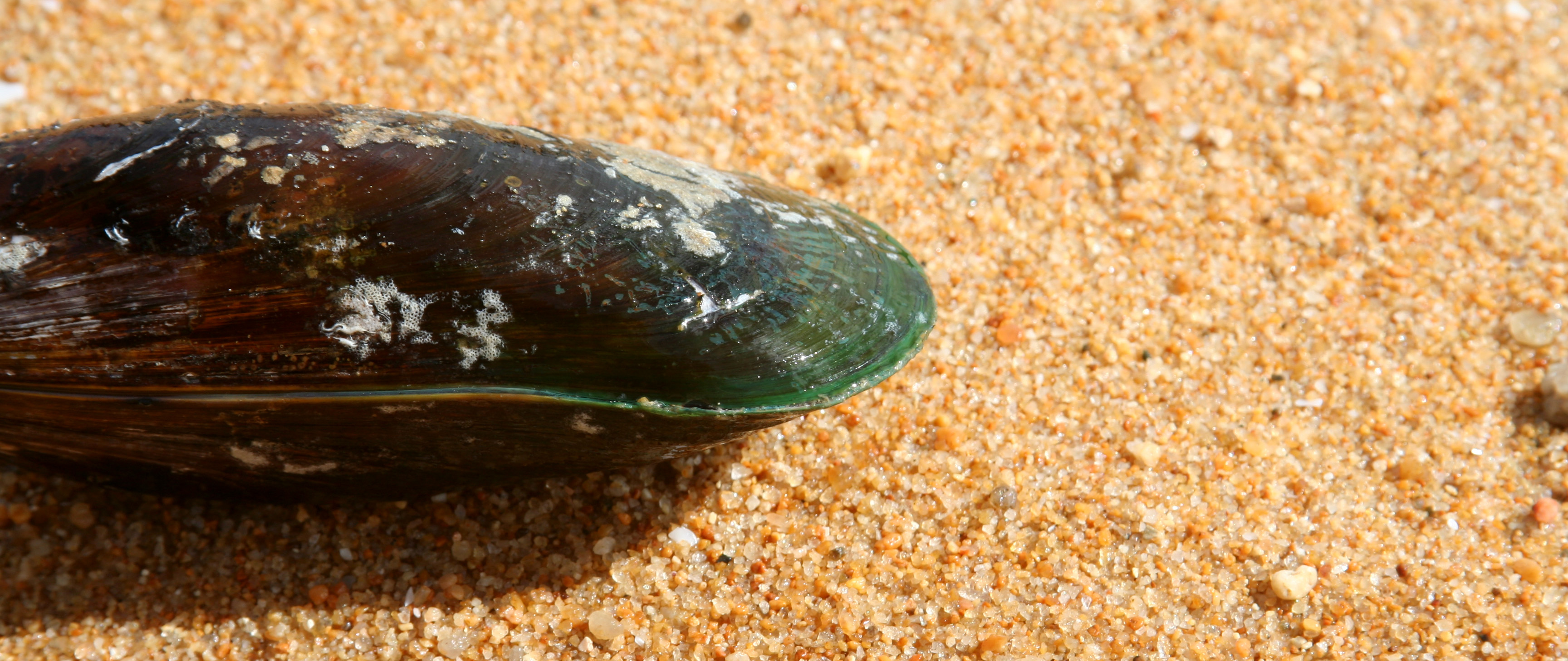 They have - errm - green lips? Bloody big as well! Kaiteriteri Abel Tasmin NZ